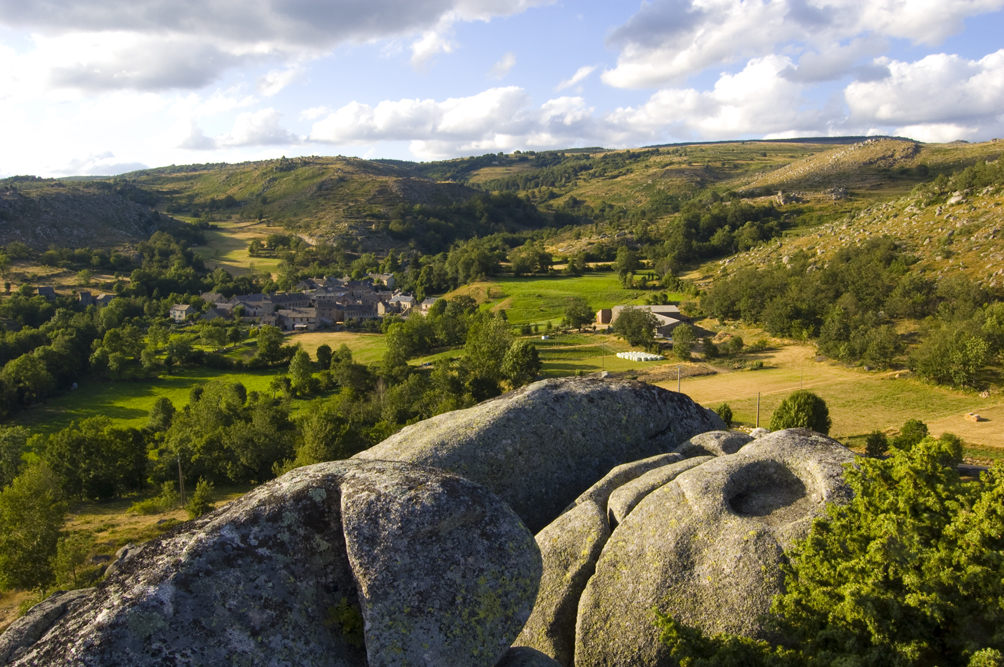 Rûnes, Lozère (general view) on July 24, 2009